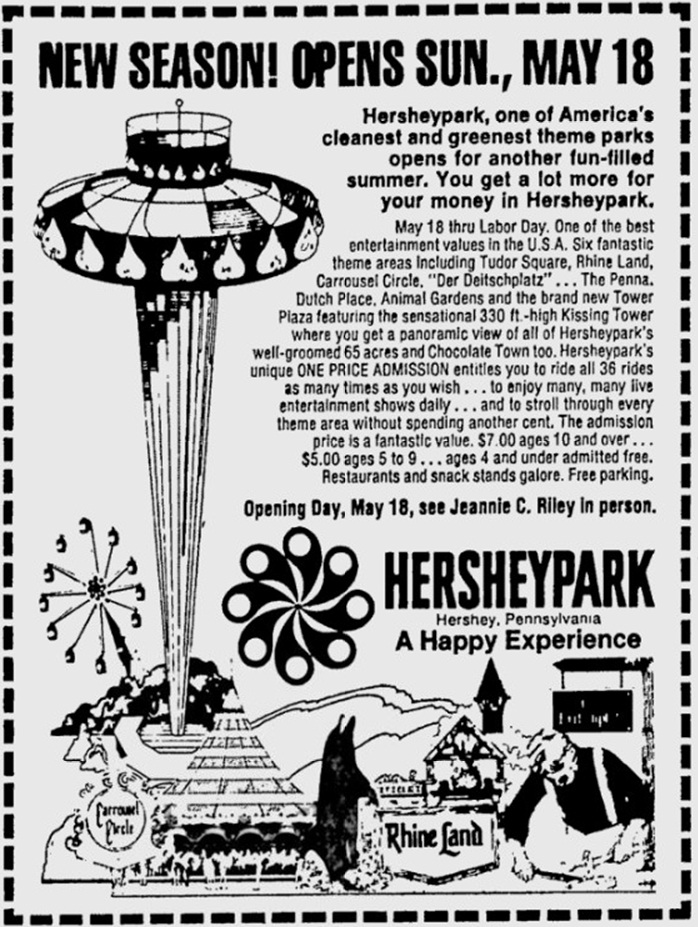 This is an advertisment for Hersheypark from May 16, 1975 in the Gettysburg Times